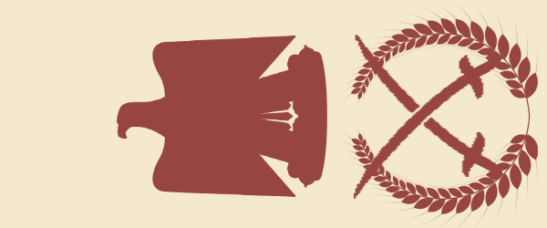 Egyptian Army Field Marshal's rank